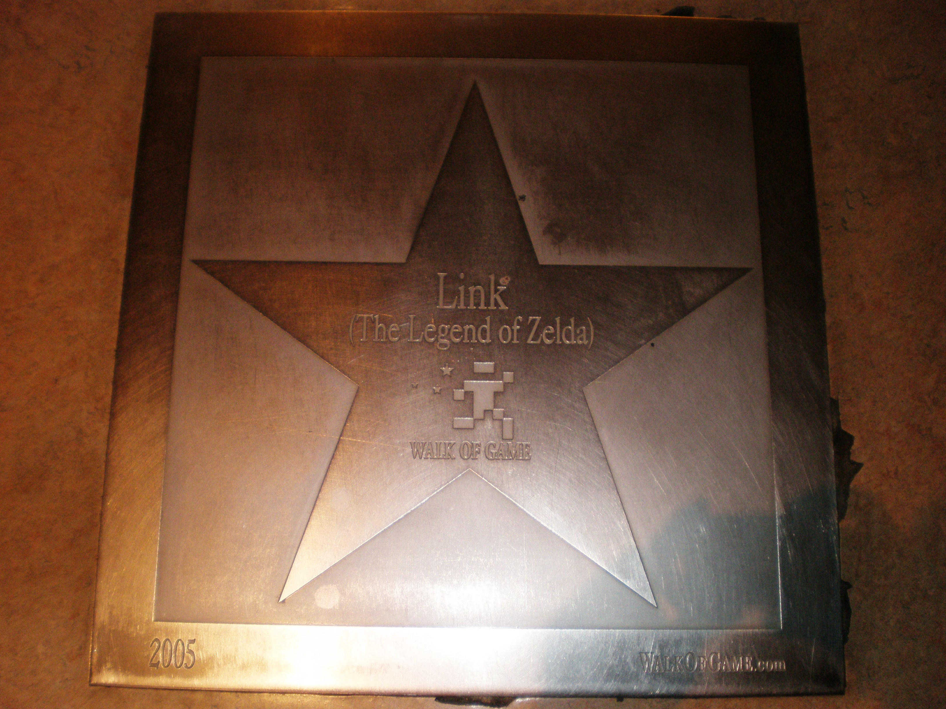 The star for Link from The Legend of Zelda at the Walk of Game in the Metreon in San Francisco, California.